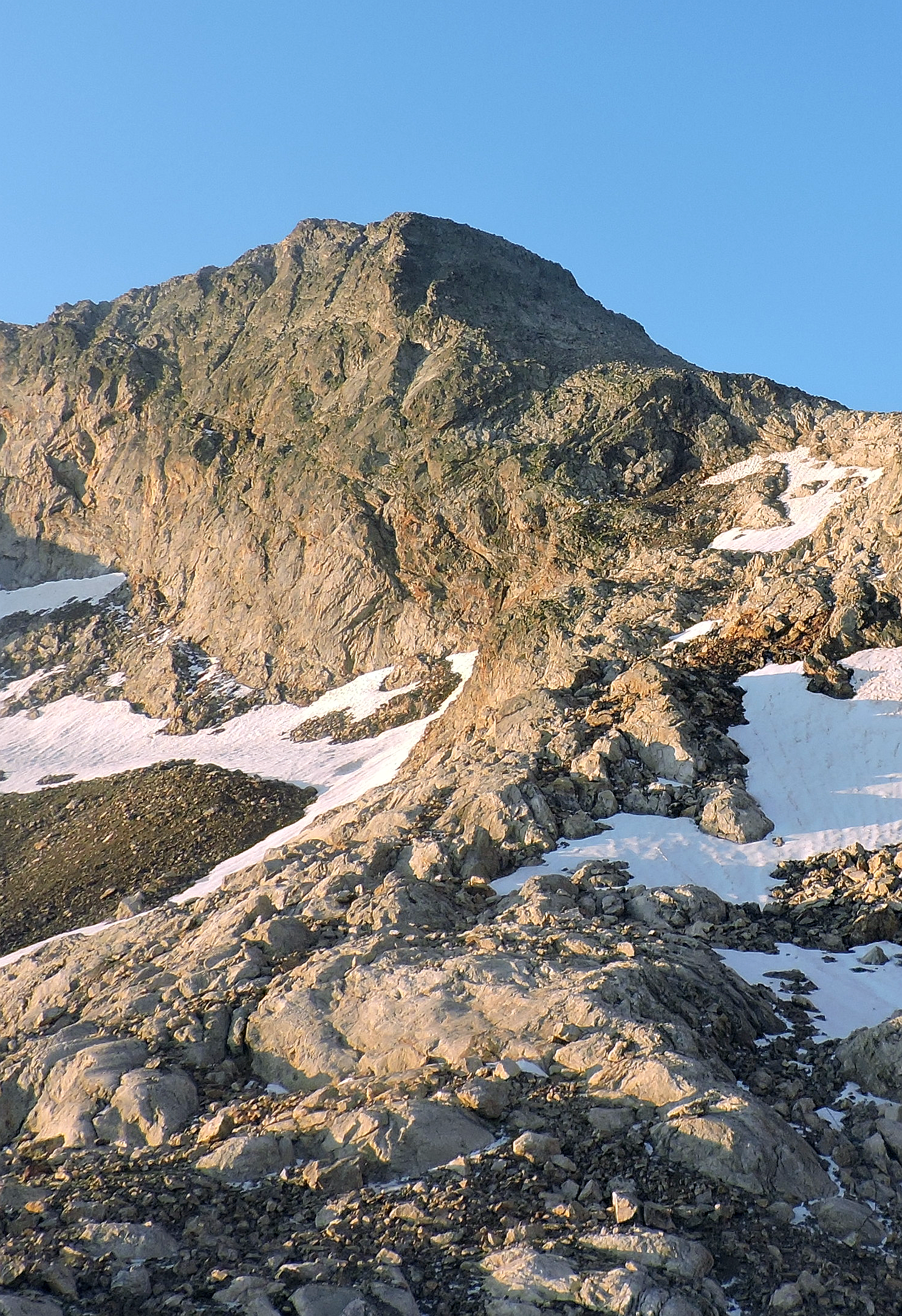 Cima Pagarì (French-Italian Border) as seen from Pagarì mountain hut